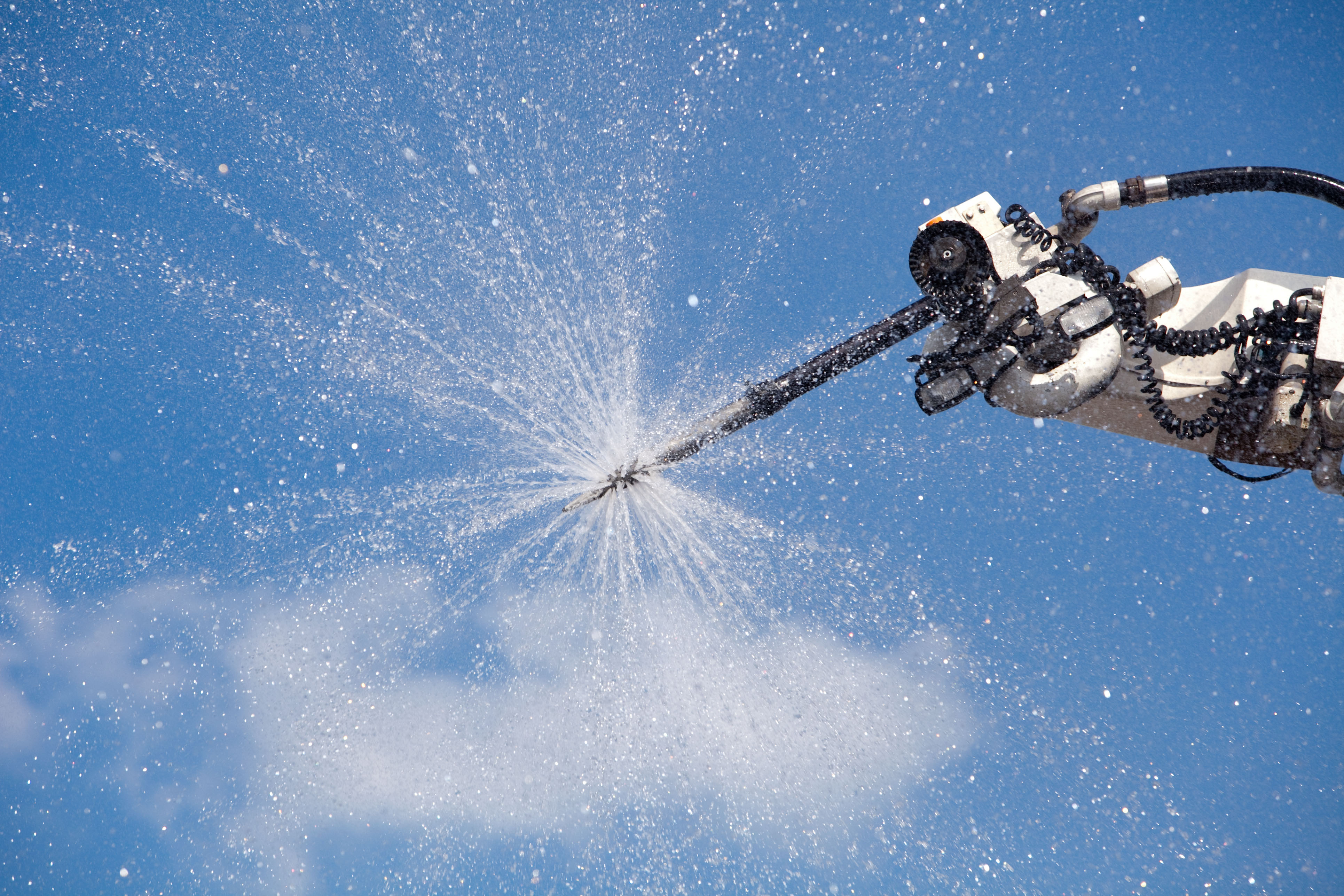 Airport crash tender spray nozzle used to at Rochester International Airport